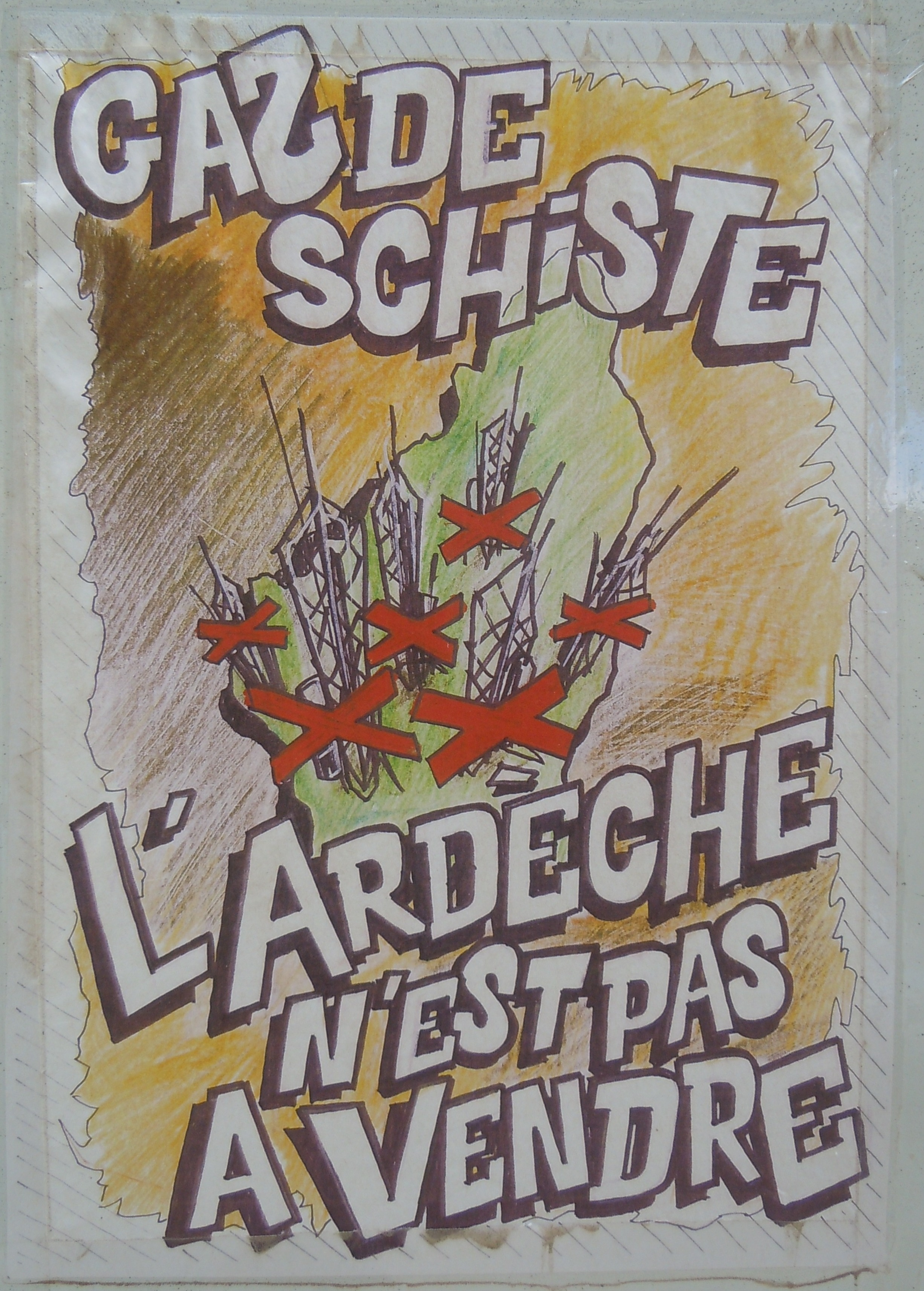 Affiche: Shale Gas - Ardèche is not to be sold.